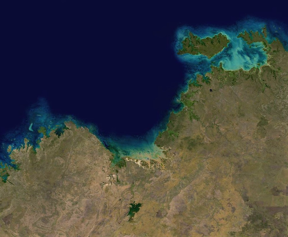 A satellite image of Joseph Bonaparte Gulf from the Goddard Space Flight Center